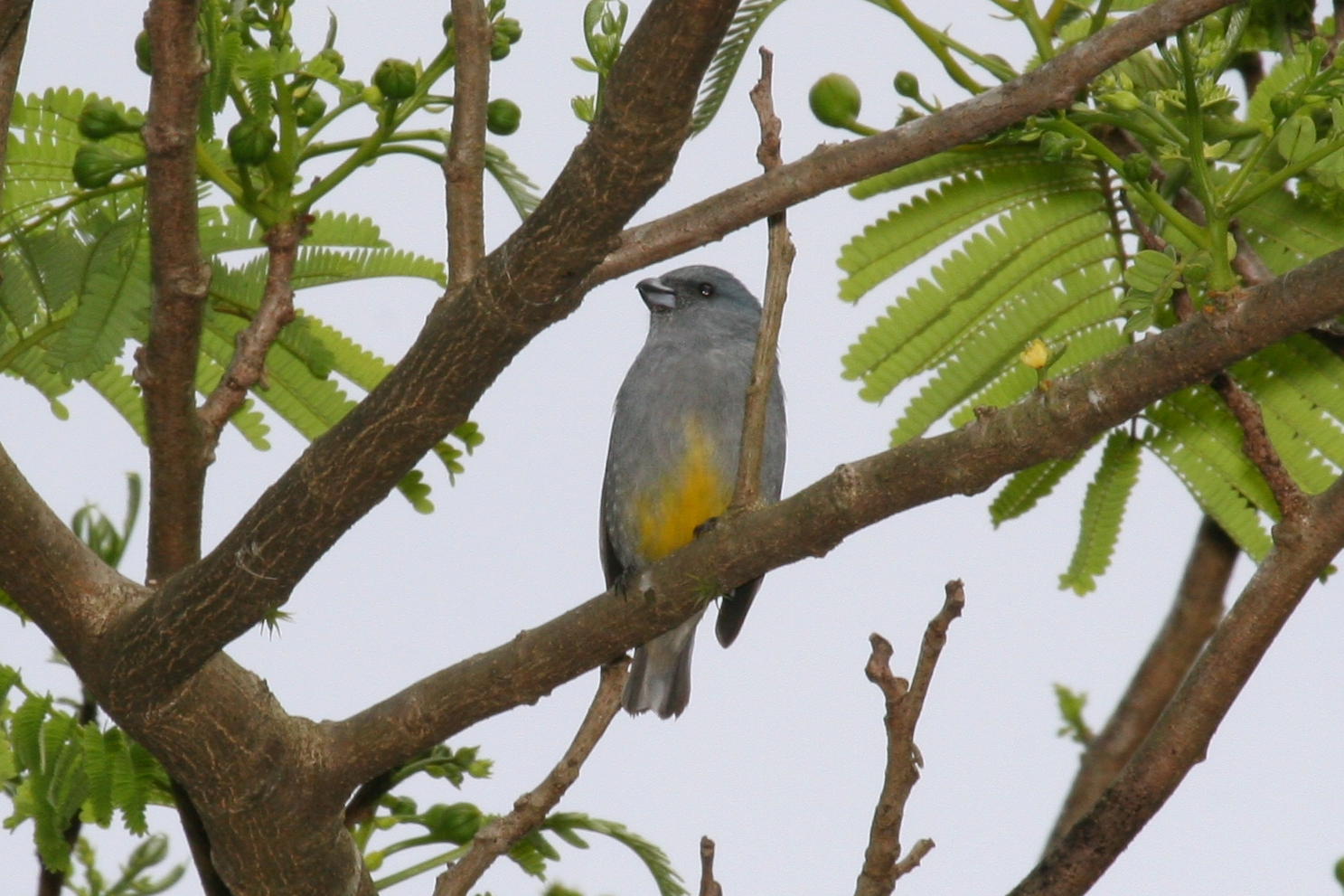 Jamaican Euphonia (Euphonia jamaica) Dysmorodrepanis 12:54, 29 May 2008 (UTC)